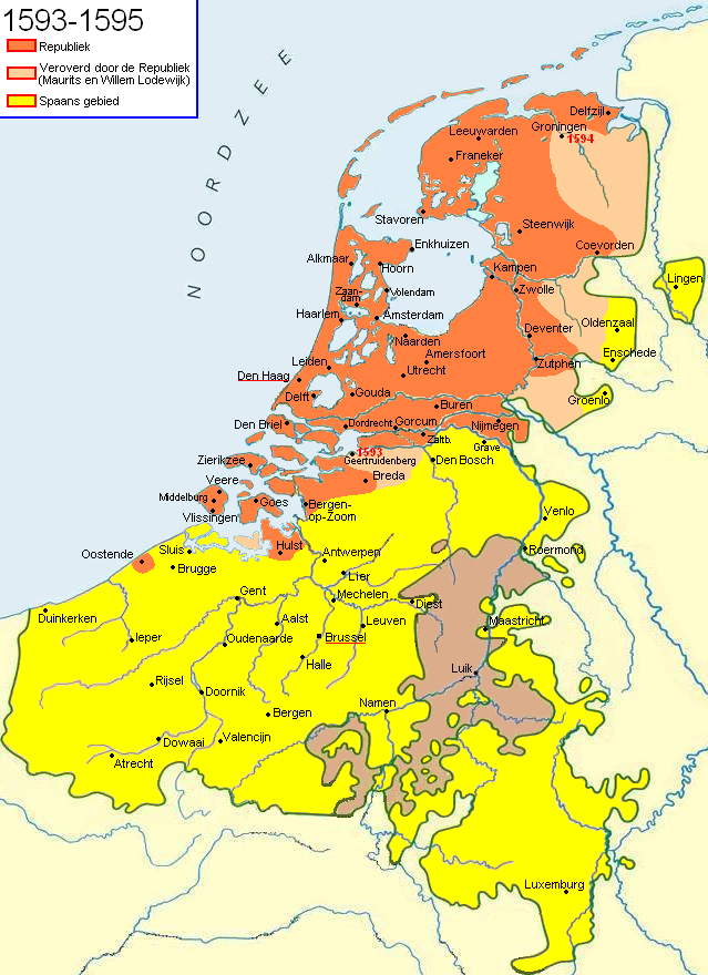 Situation between 1593 and 1595, during the Eighty Years War between the Netherlands and Spain, showing changes in territory and important battles. Legend: The United Provinces is marked Red, the Spanish Netherlands are marked Yellow, the Prince-Bishopric of Liege is marked Gray, and territory conquered by the United Provinces from Spain is shown in soft Red.